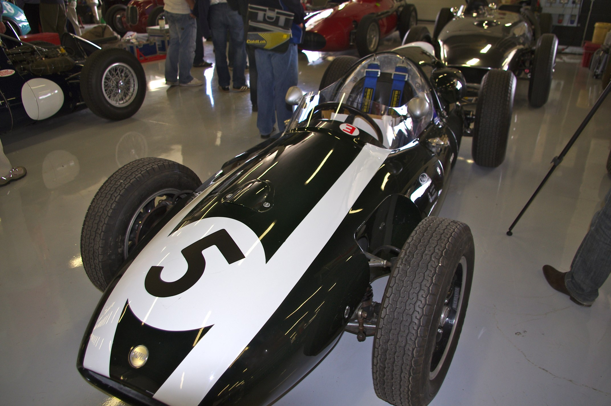 Silverstone Classic 2011